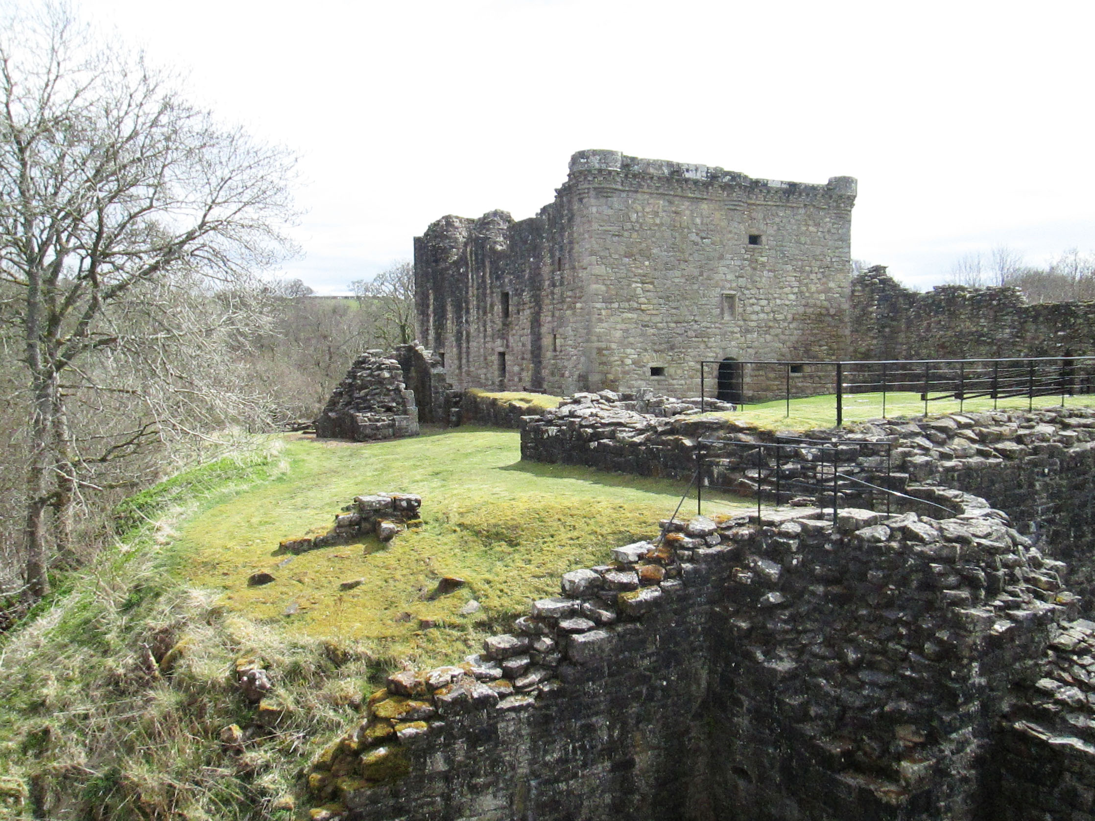 Craignethan Castle from the west, looking towards the Nethan Gorge